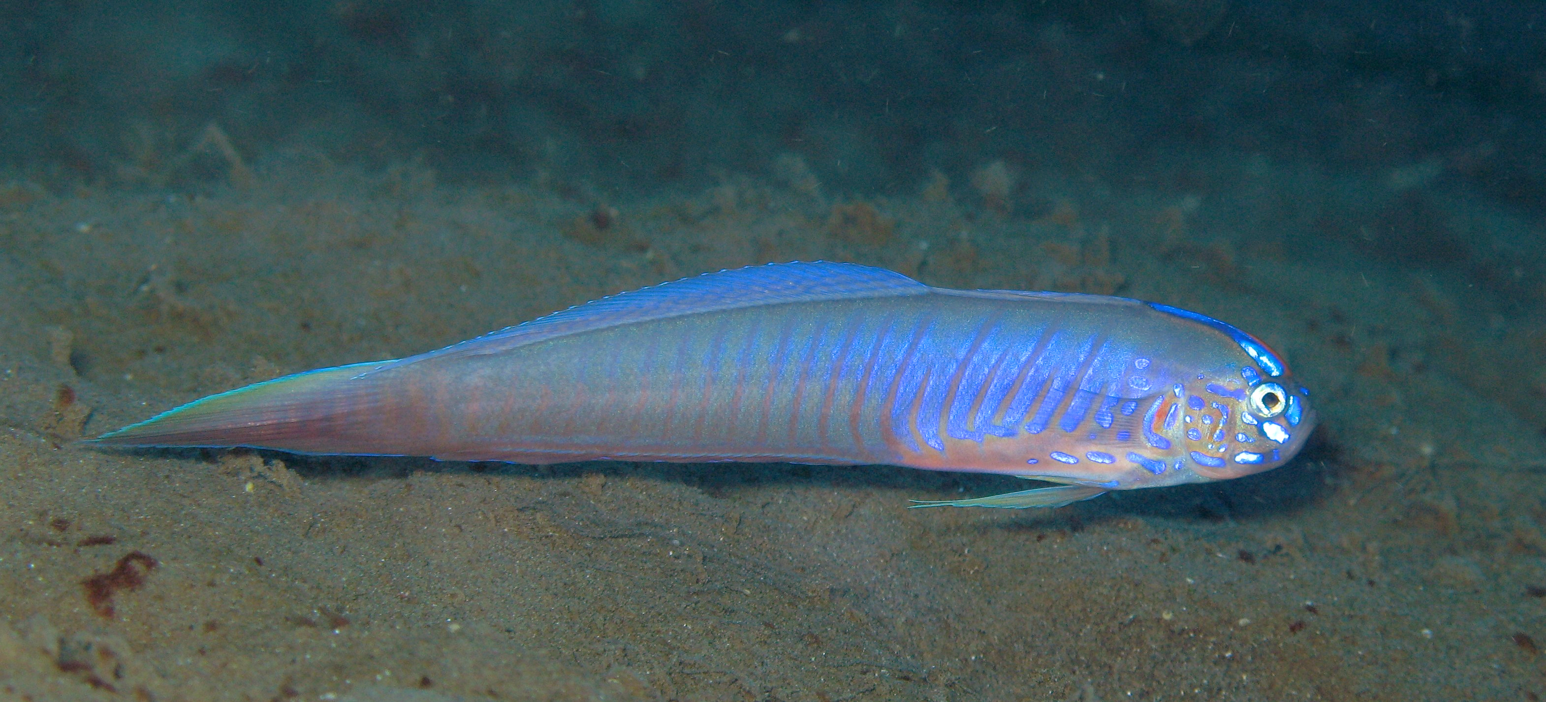 Oxymetopon cyanoctenosum, Leyte, Philippines